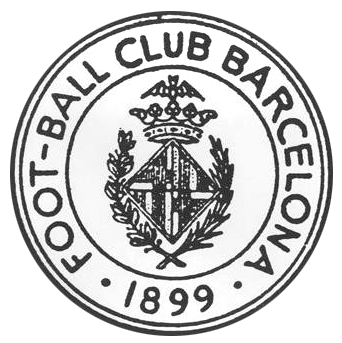 The first badge of Spanish FC Barcelona.